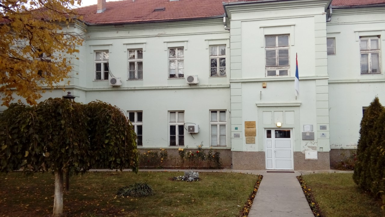 Town hall in Golubac